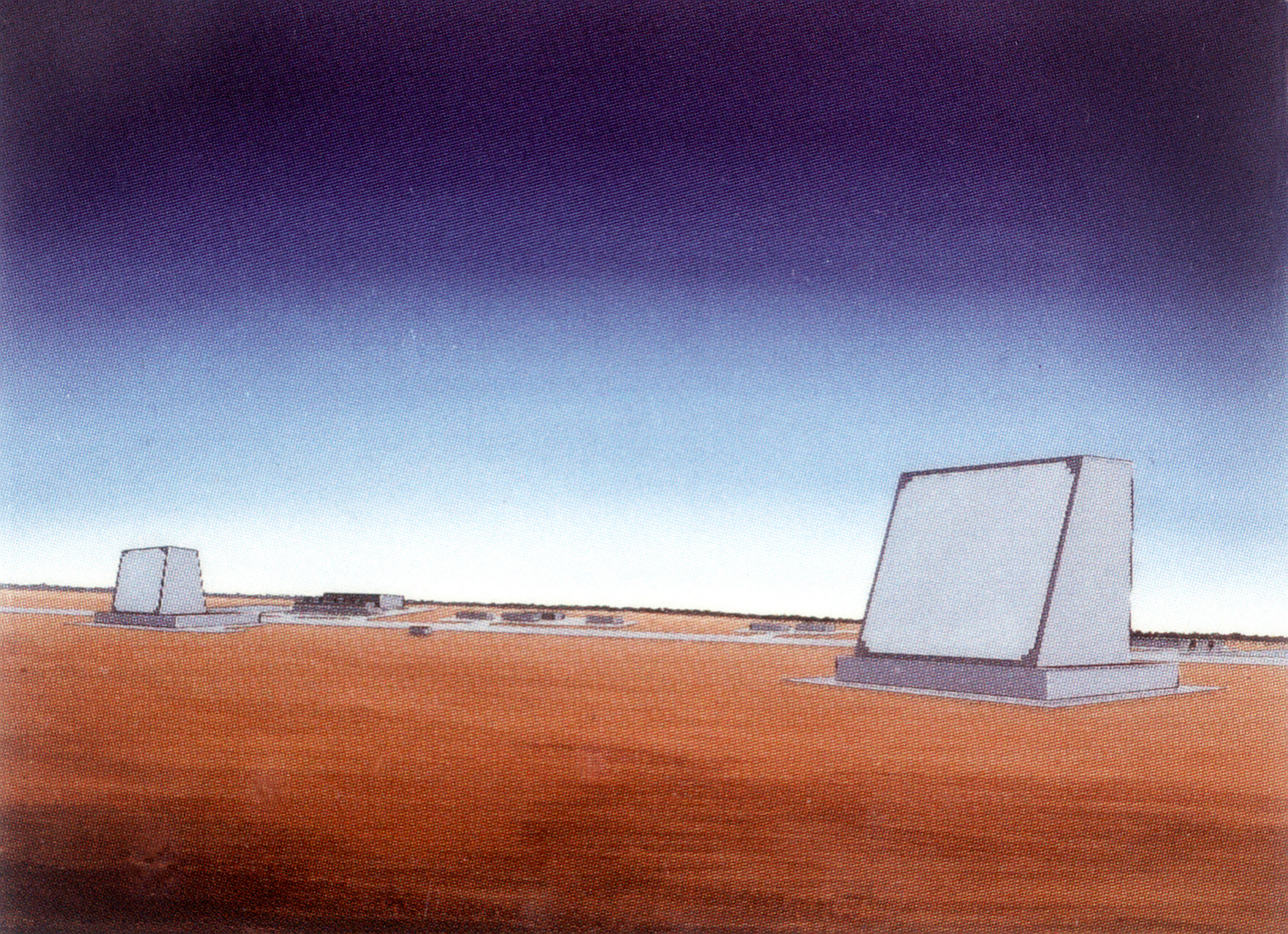 US drawing DD-ST-86-06622. Krasnoyarsk Daryal radar.